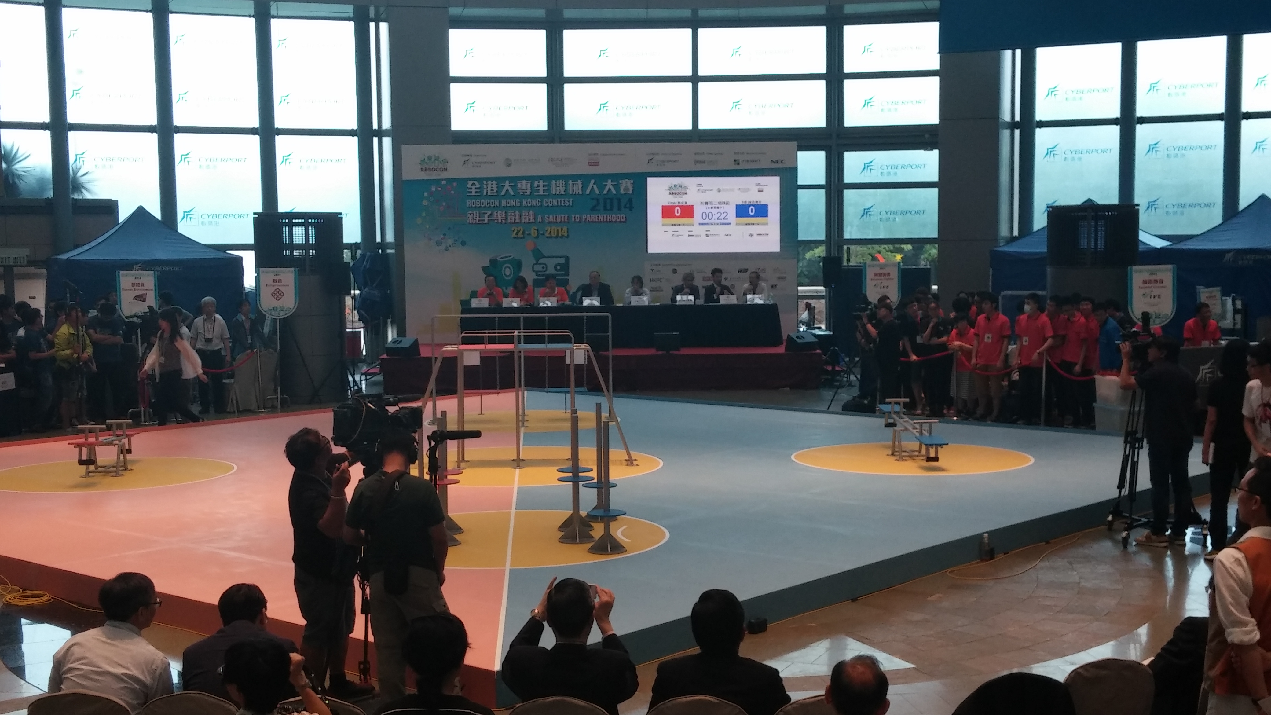 Photo shot of Robocon Hong Kong 2014.